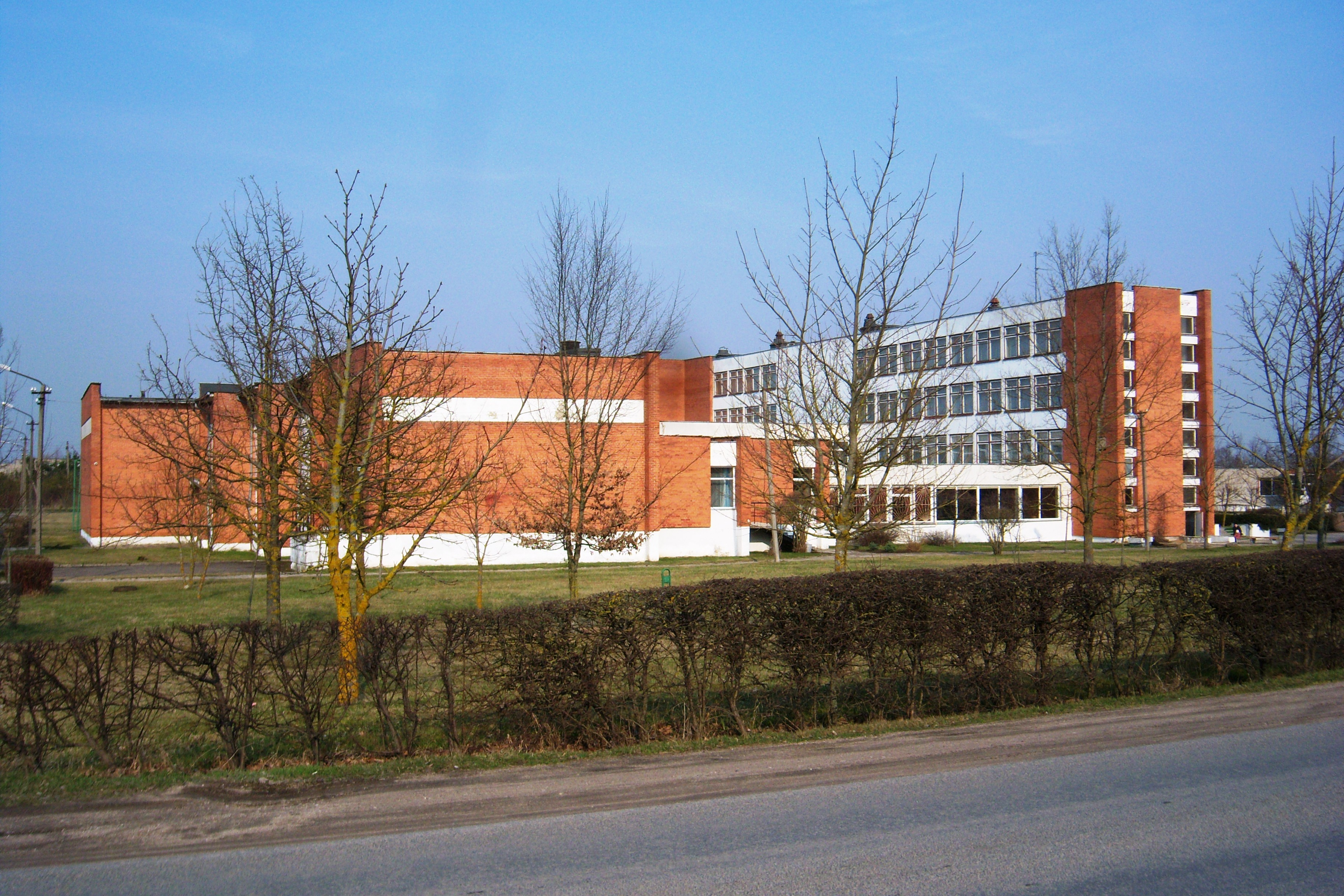 Agricultural school, Vilkija, Kaunas district, Lithuania